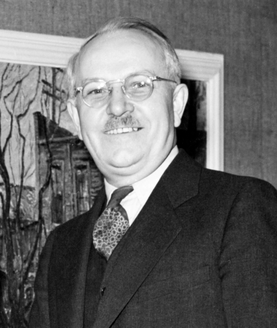 Photograph of Holger Cahill, national director of the Federal Art Project, at the opening of an exhibition in Illinois